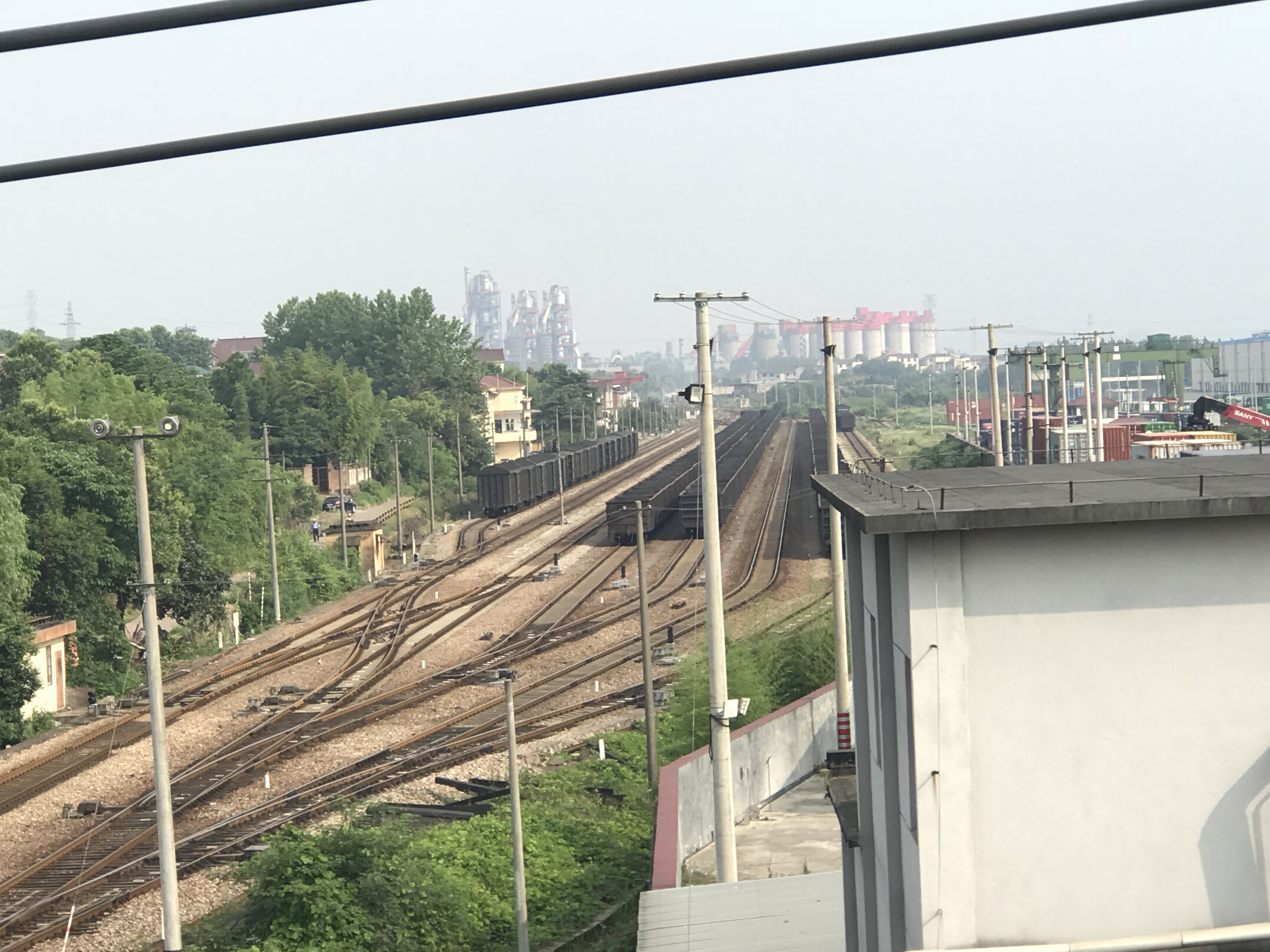 201805 Tracks at Gongtang Station, those wires are a little bit annoying...